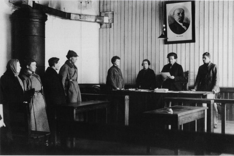 Reading a sentence on Chubarovsky process, Leningrad, 1926